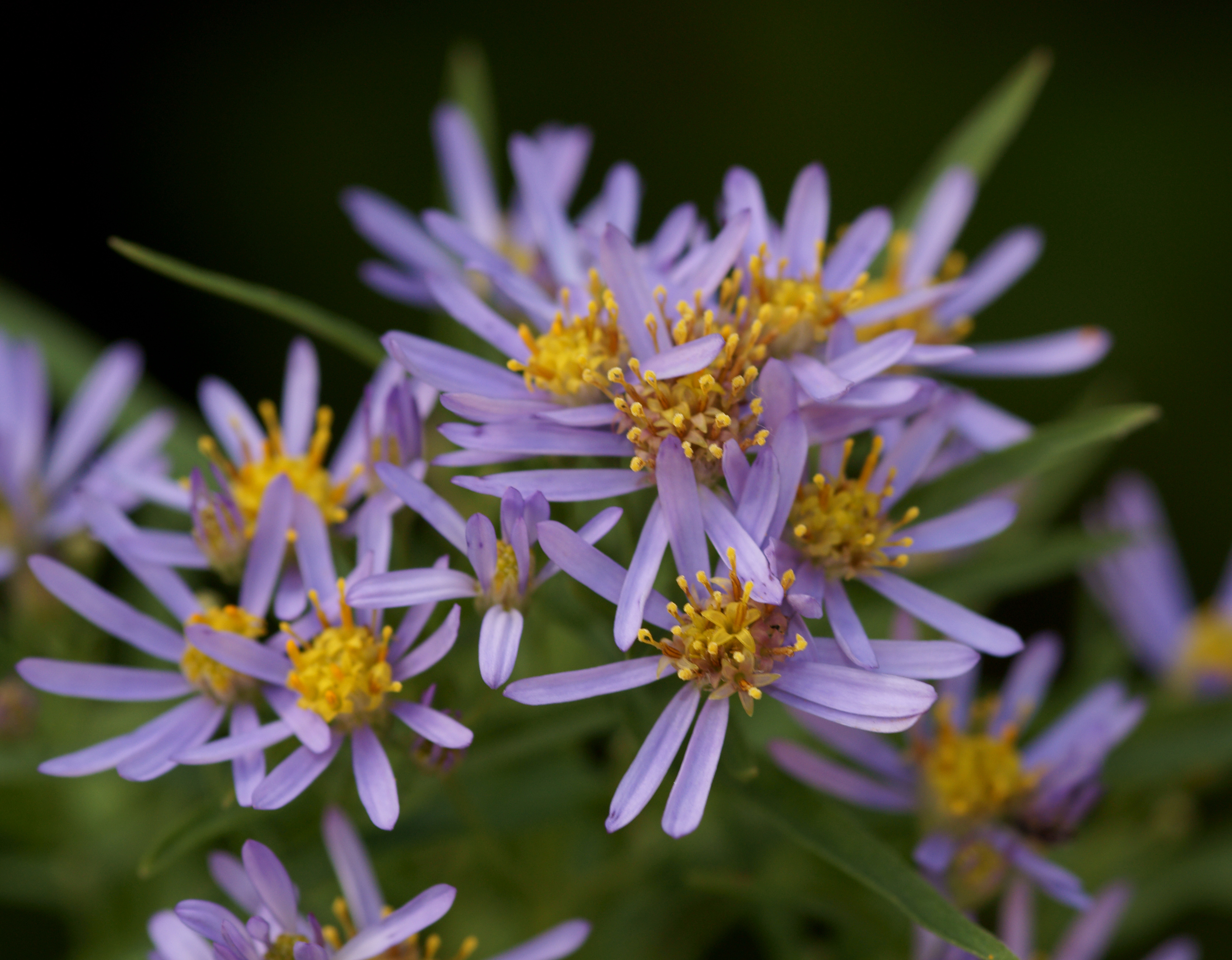 Aster tripolium.